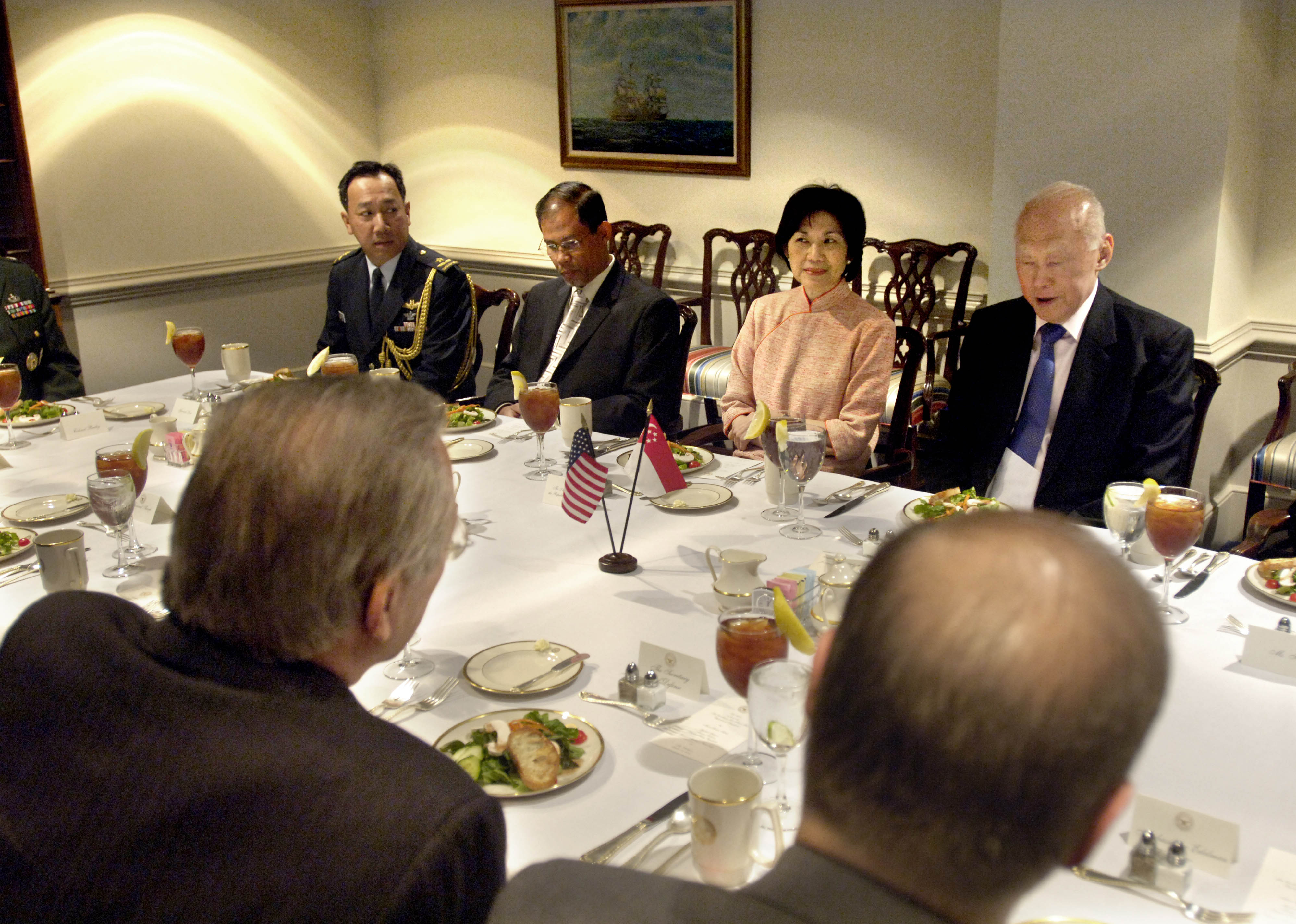 Singapore's Minister Mentor Lee Kuan Yew (right) participates in a working lunch hosted by Secretary of Defense Donald H. Rumsfeld (left foreground) in The Pentagon on Oct. 17, 2006. Among those joining Lee on the guest's side of the table are (left to right) Defense Attaché in Singapore's U.S. Embassy Brig. Gen. Richard Keng Yong Lim, Senior Parliamentary Secretary for Education Masagos Zulkifli bin Masagos Mohamad, and Singapore's Ambassador to the U.S. Chan Heng Chee.